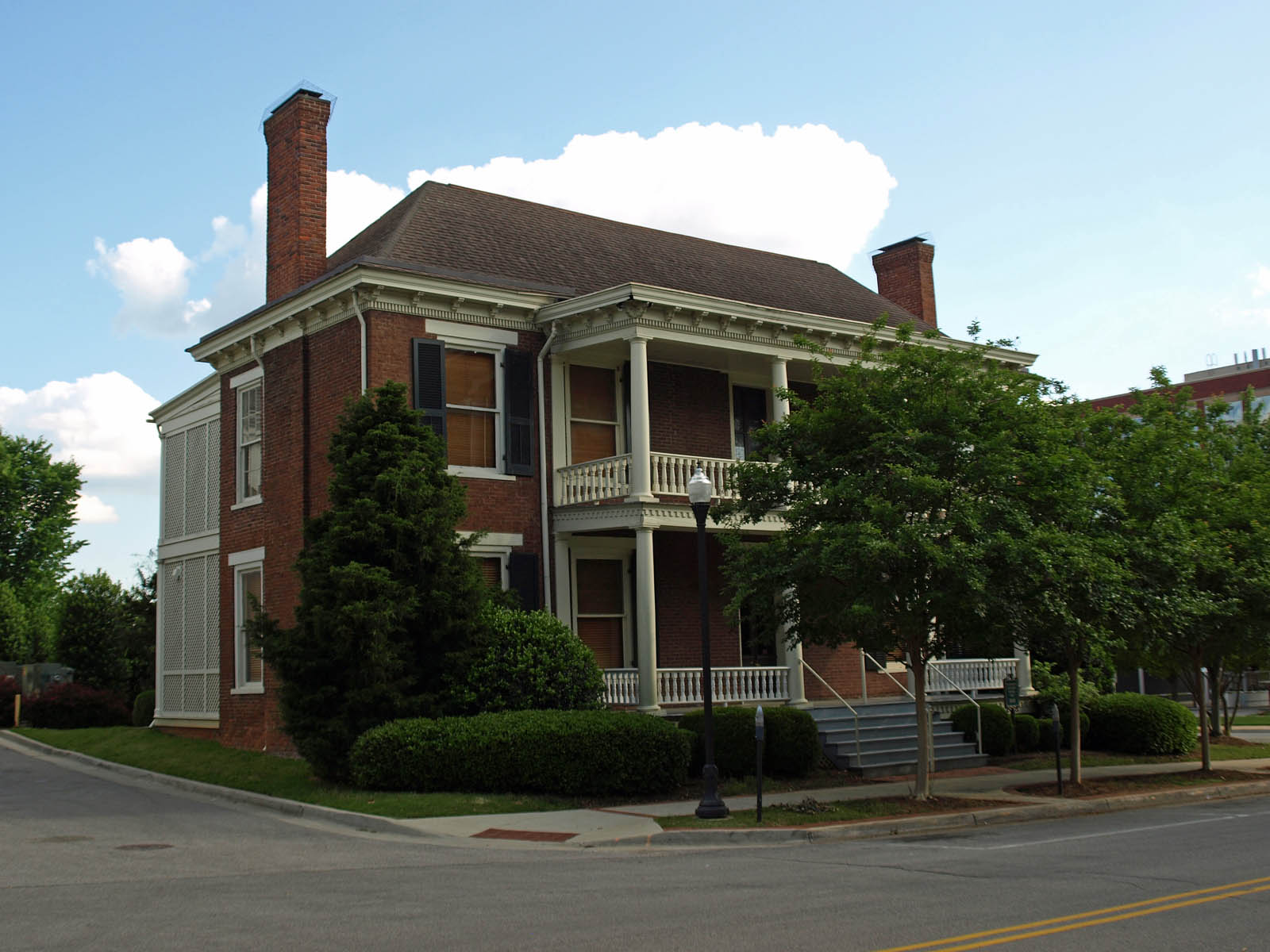 The Humphreys-Rodgers House in Huntsville, Alabama, listed on the National Register of Historic Places.